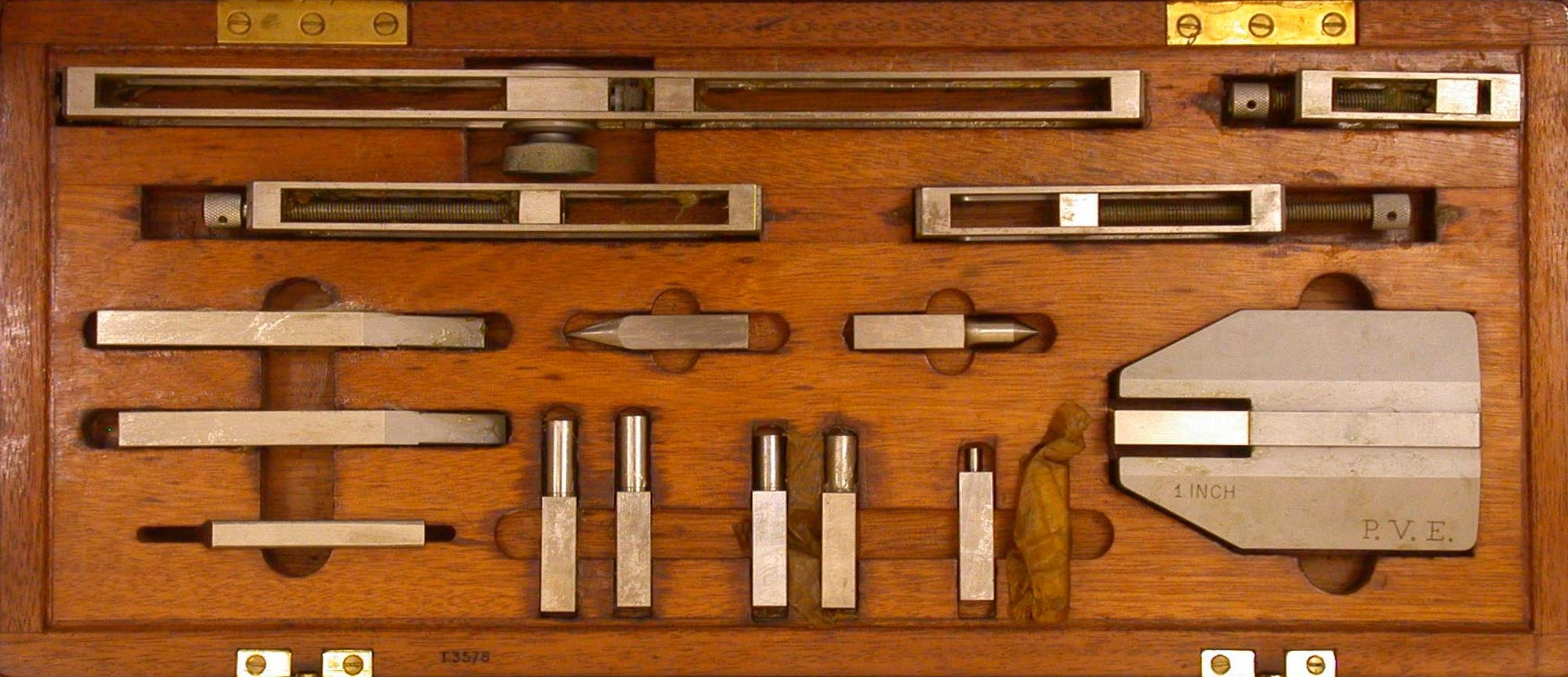 Gauge block accessory set, used with gauge blocks to allow easy stacking and use. Various lengths of stackers (4 off), a base for mounting, scribers and points for transferring measurements internally and externally are shown.